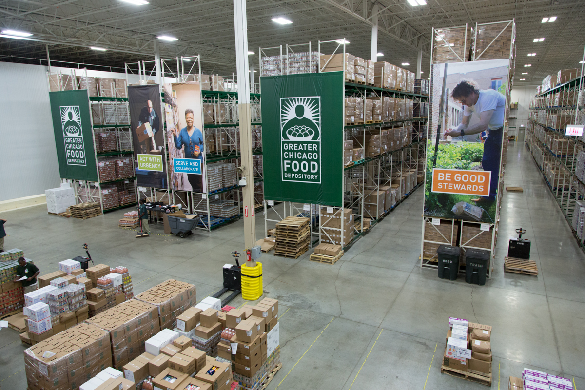 This is a picture of the inside of the Greater Chicago Food Depository's warehouse, which is located at 4100 W Ann Laurie PL in Chicago, IL.